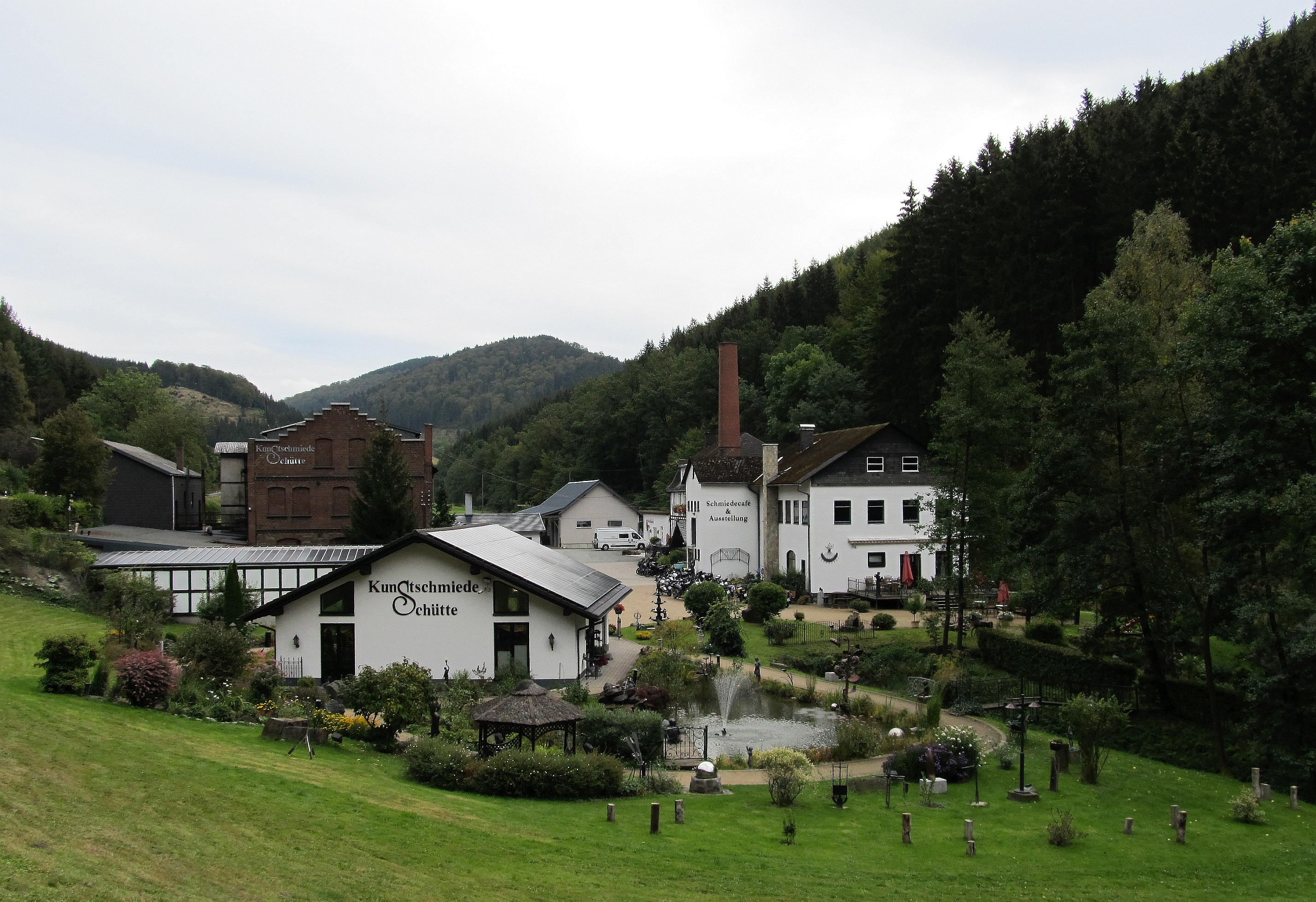 This is a photograph of an architectural monument., no. 199 Schmallenberg-Oberkirchen, Schwarze Fabrik, Anno 1878